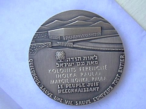 The medal of the Righteous Amongst the Nations Award for Ilona Kolonits, her mother, Paulina Kolonits and sisters Margit and Paola Kolonits, 2009